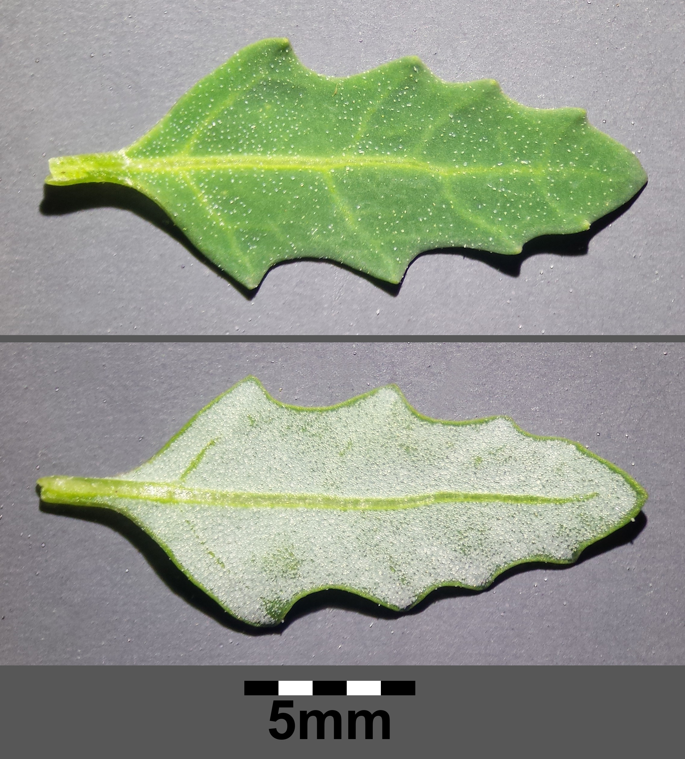 Leaf, upper and bottom side Taxonym: Chenopodium glaucum ss Fischer et al. EfÖLS 2008 ISBN 978-3-85474-187-9 Location: orangery at Stift Zwettl, district Zwettl, Lower Austria - ca. 500 m a.s.l. Habitat: flower pot